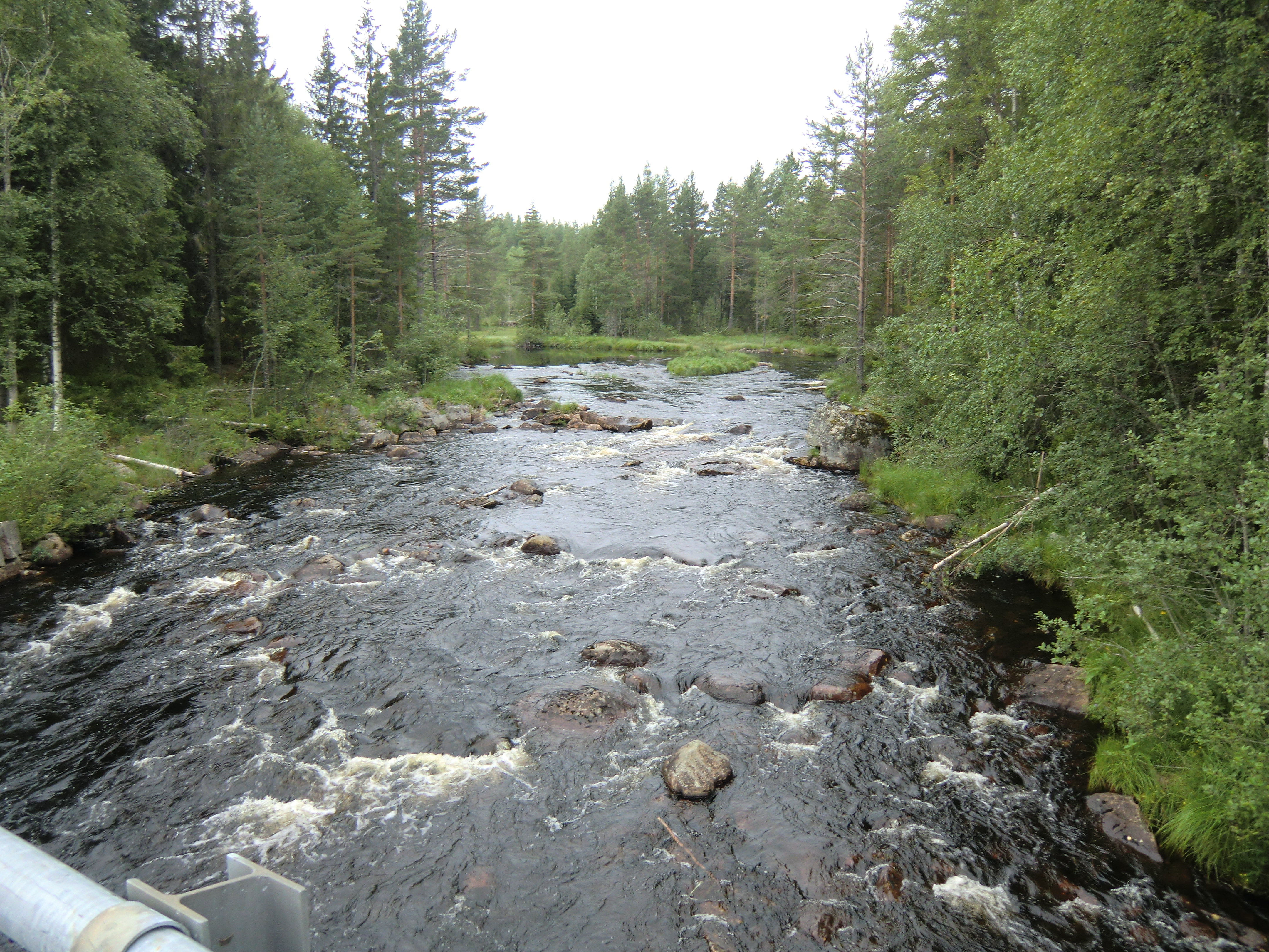 Løvhaugsåa in Hedmark, Norway.